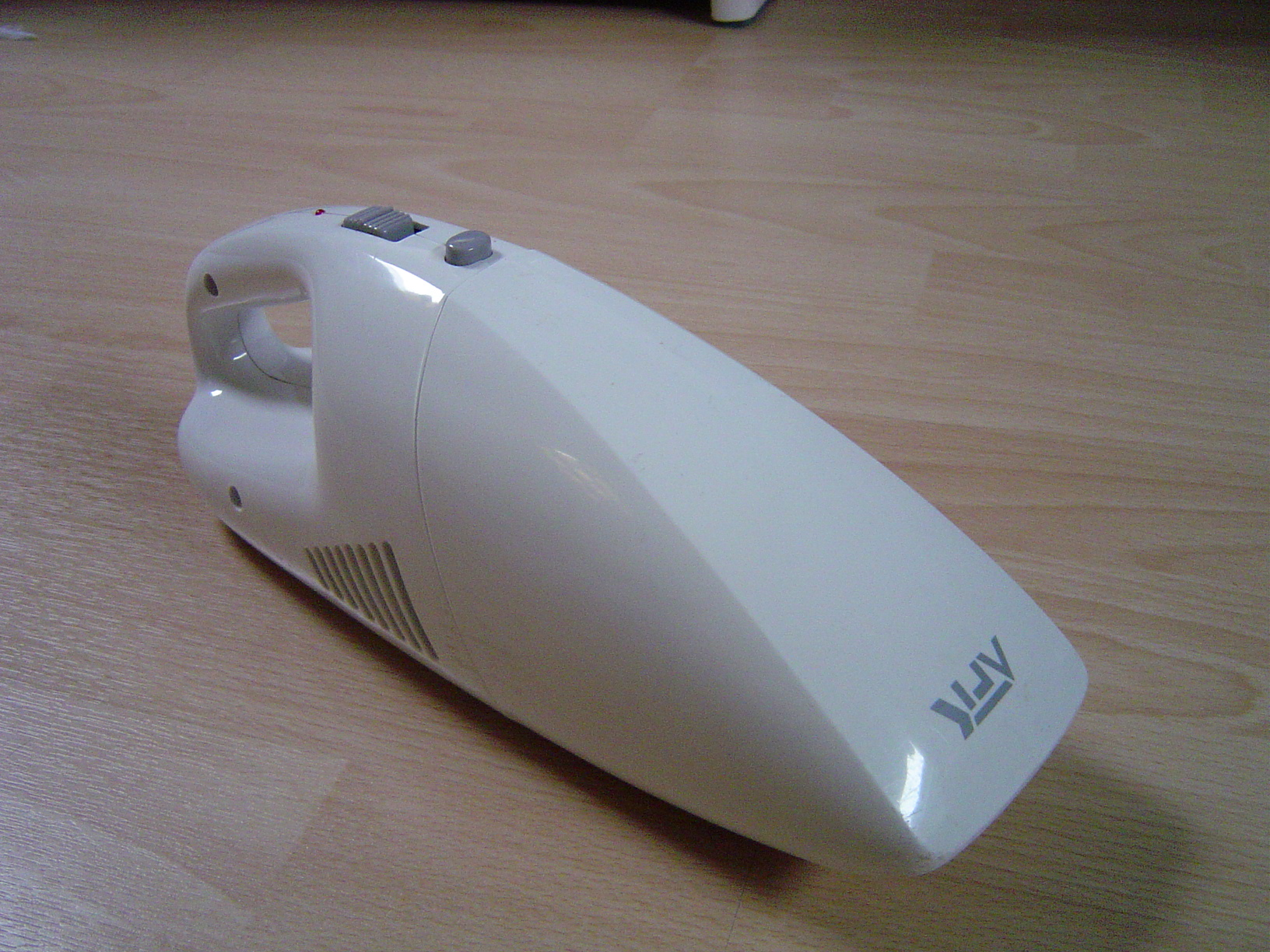 A small vacuum cleaner, named "kruimeldief" in the Netherlands